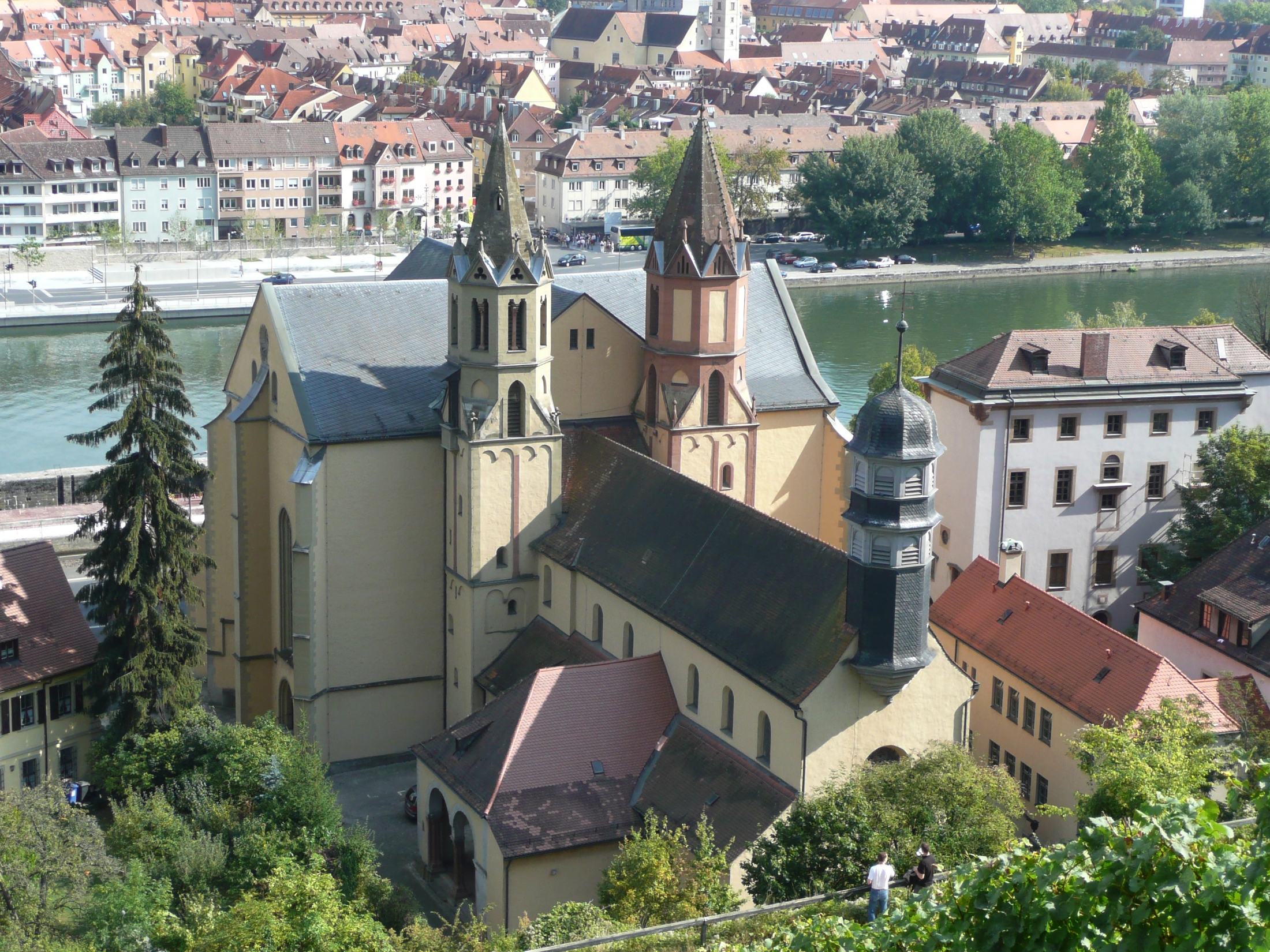 Church St. Burkard, Würzburg, seen from Fortress Marienberg